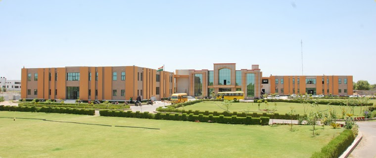 MRK Enginnering College Saharanwas in Rewari